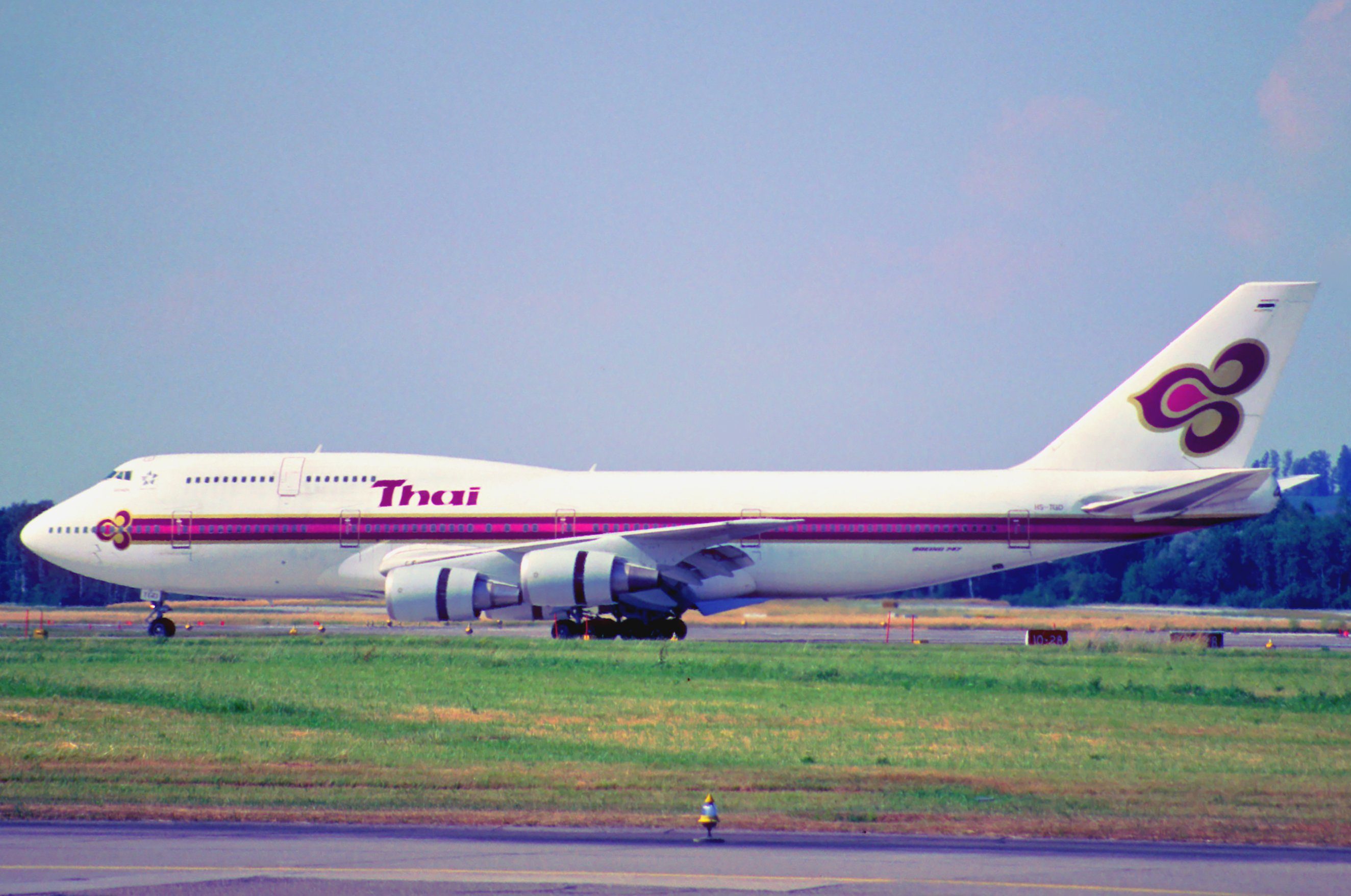 This Boeing 747-300 took its first flight on June 22, 1987... 16/12/1987 Thai Airways International HS-TGD stored 25/03/07